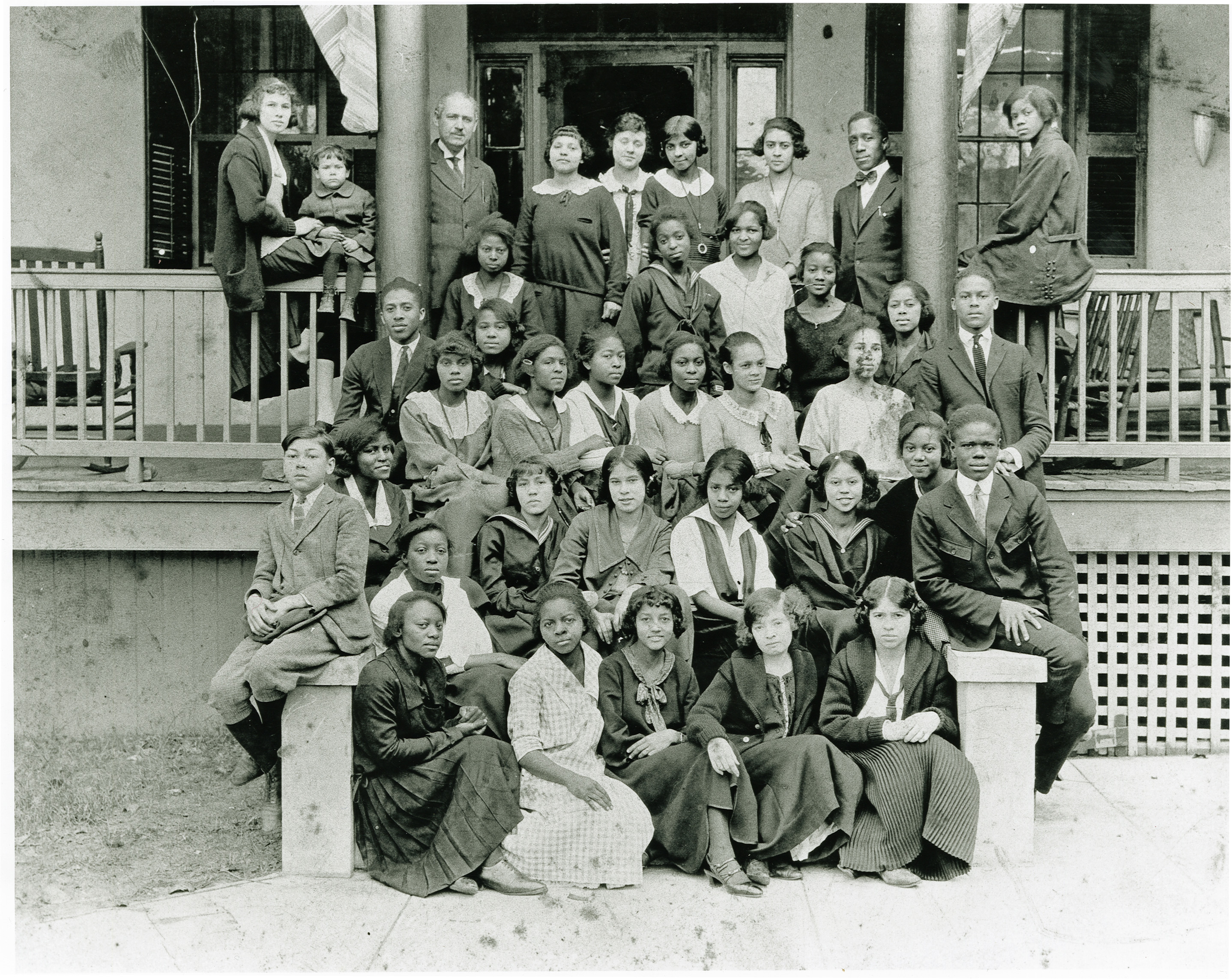 Class photo on the grounds of the Avery Normal Institute, 1924, Avery Photo Collection. Courtesy of Avery Research Center.